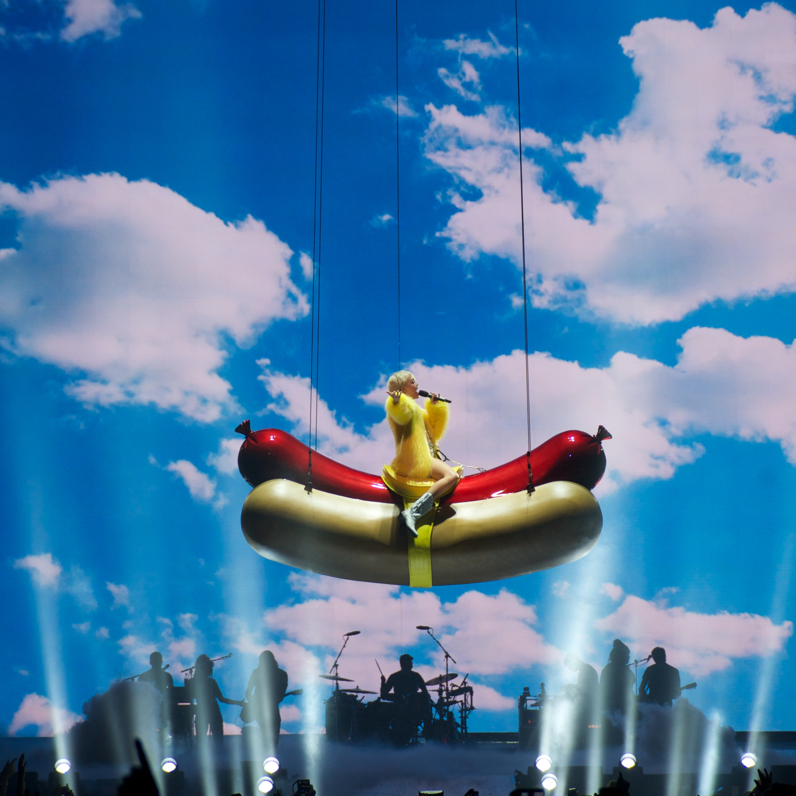 Miley Cyrus performing in Vancouver in 2014